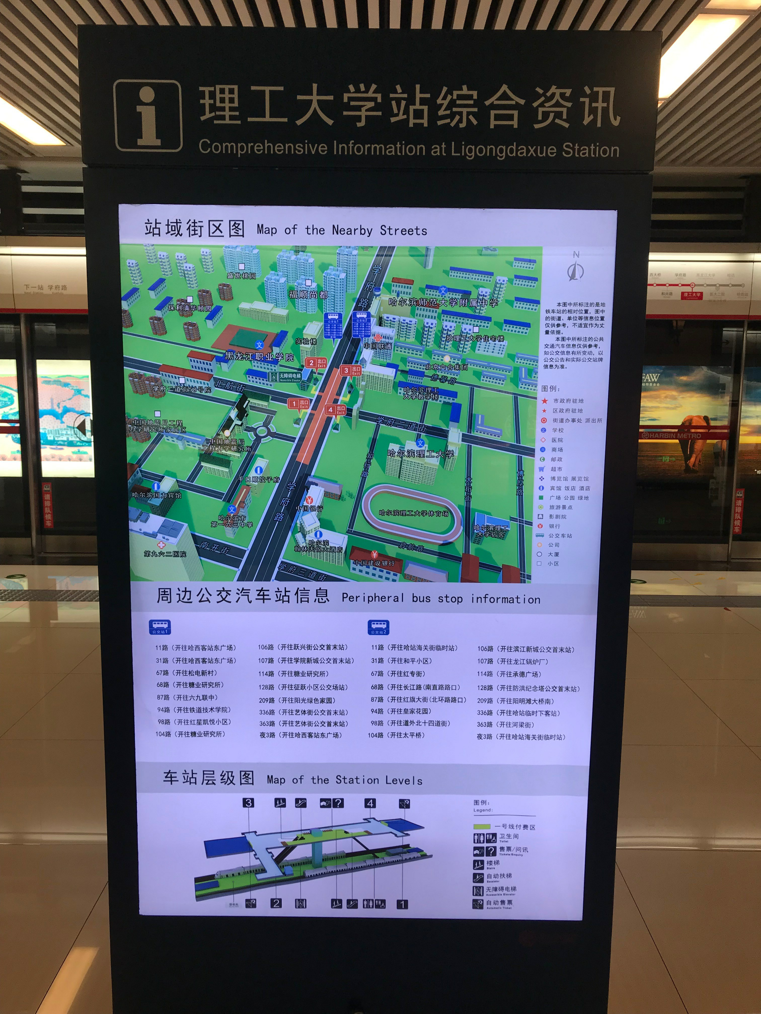 Ligongdaxue Station - Comprehensive Information